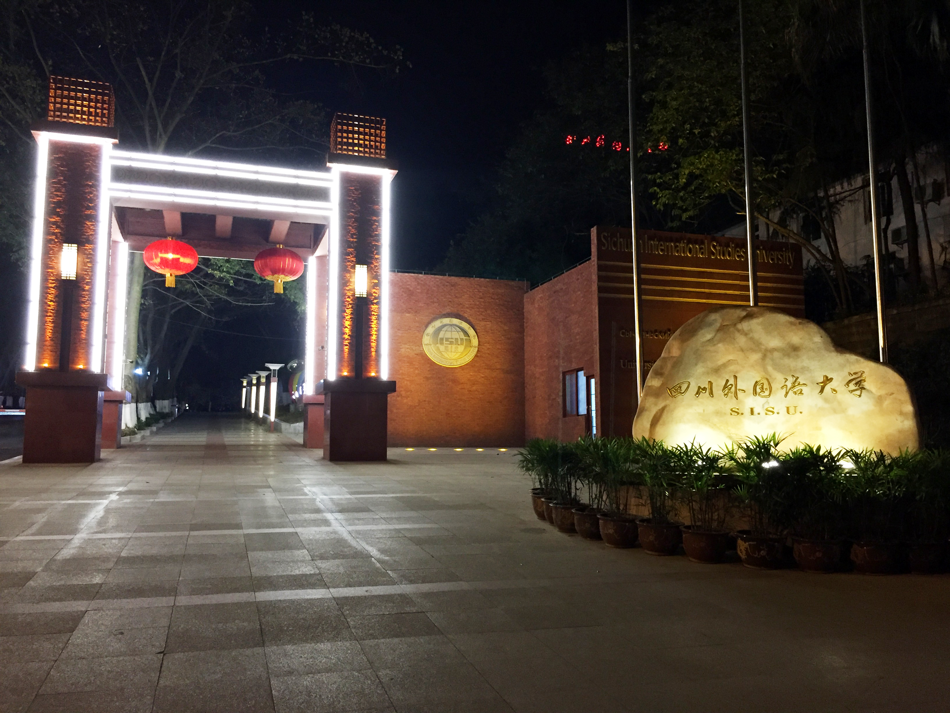 Night view taken April 2019